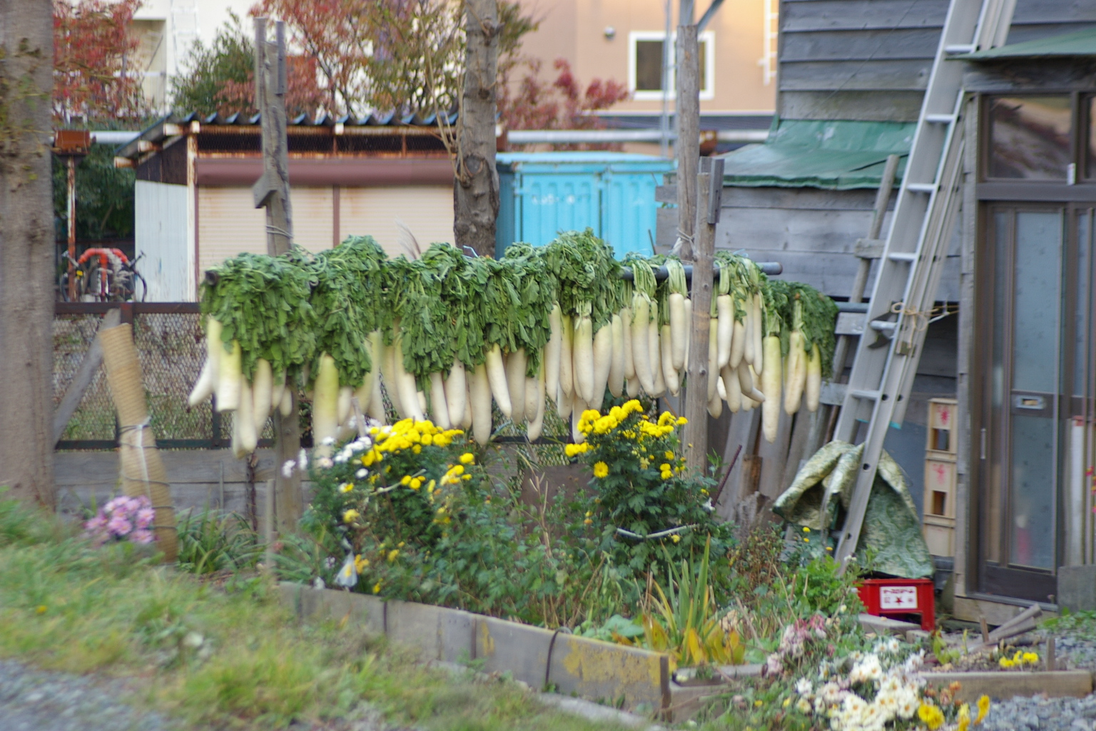 The Japanese radish currently dried in sunlight